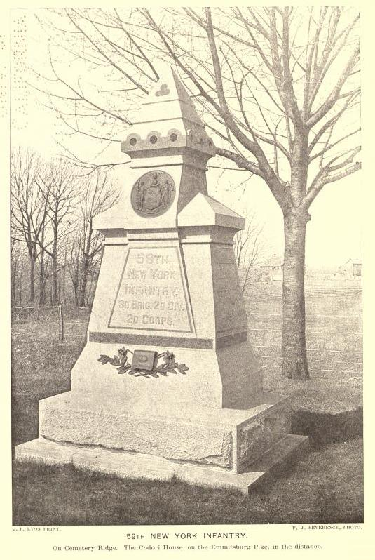 59th New York Infantry Monument, Gettysburg Battlefield. New York Monuments Commission, Final Report on the Battlefield of Gettysburg, Volume 1 (Albany, NY: J.B. Lyons Company, 1902), opp. p. 433.[1]